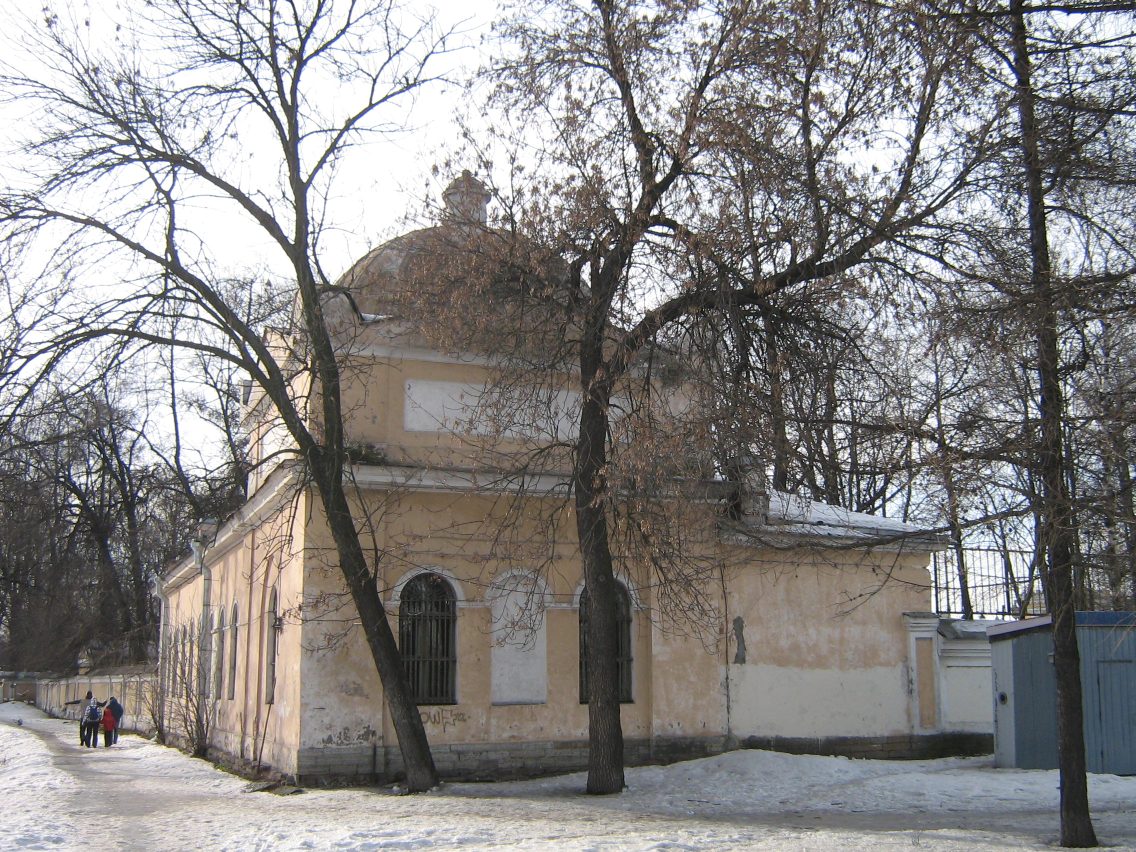 Saint Petersburg (Russia), Alexander Nevsky Lavra